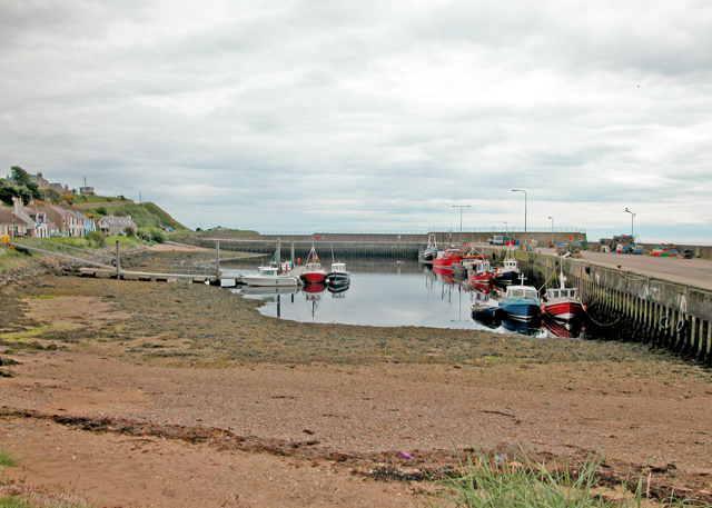 Helmsdale harbour